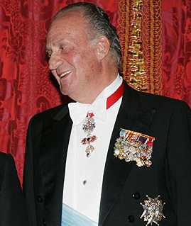 The President of Russia Vladimir Putin with the King of Spain Juan Carlos I. in Madrid, Palacio de Oriente.